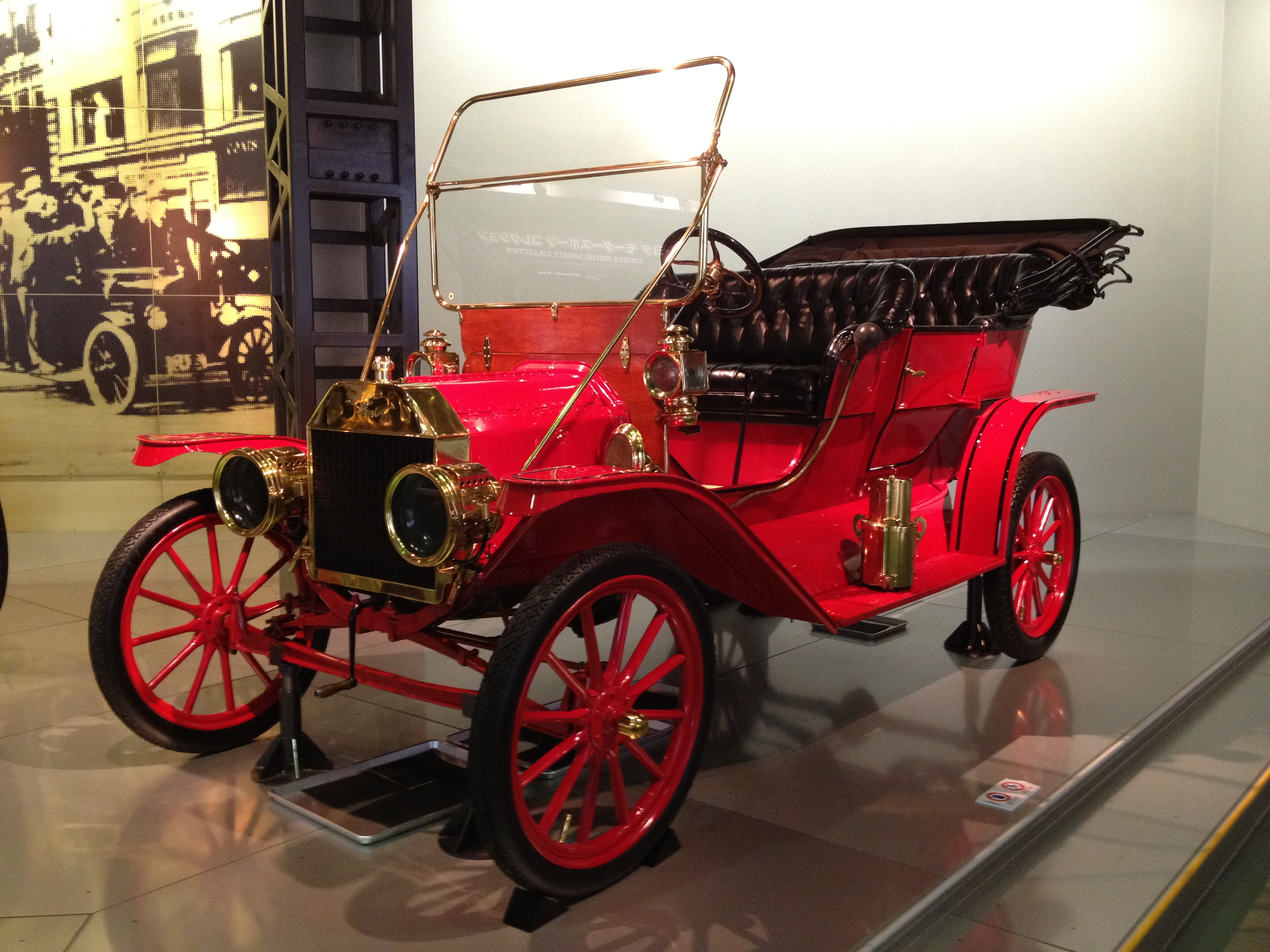 1909 Ford Model T Touring in Toyota Automobile Museum, Nagakute, Aichi Prefecture, Japan.